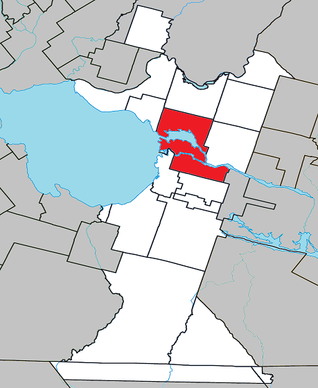 Location of Alma, Quebec within Lac-Saint-Jean-Est Regional County Municipality.